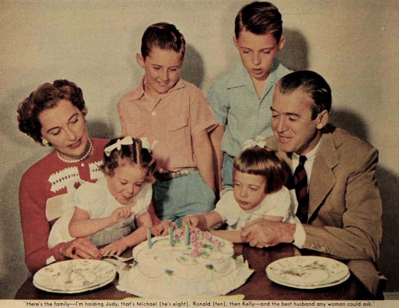 Gloria Hatrick McLean and her family in August 1954. On the right James Stewart